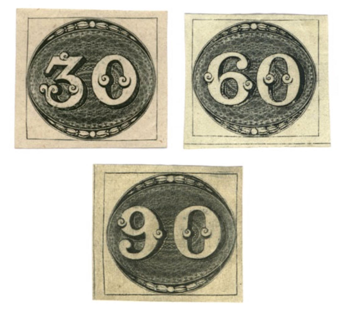 Brazil first postage stamp nicknamed Bull's Eyes, 1843